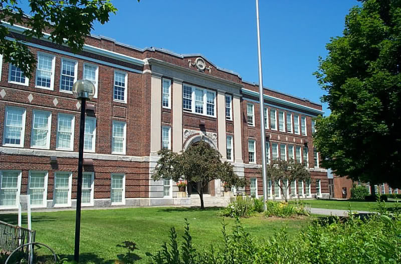 gfjyhghj